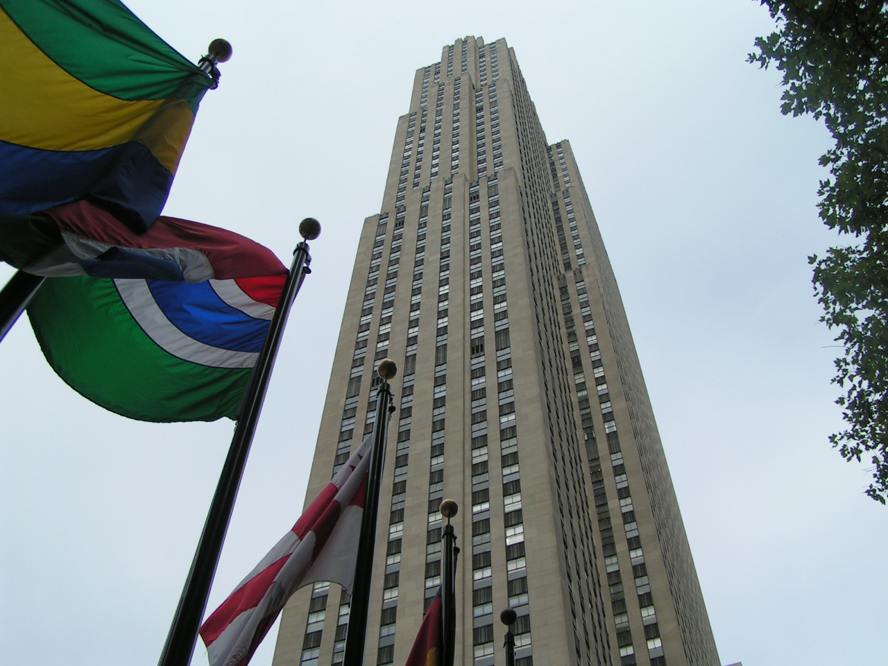 A picture of the Rockefeler building, that i have taken in july 2005.